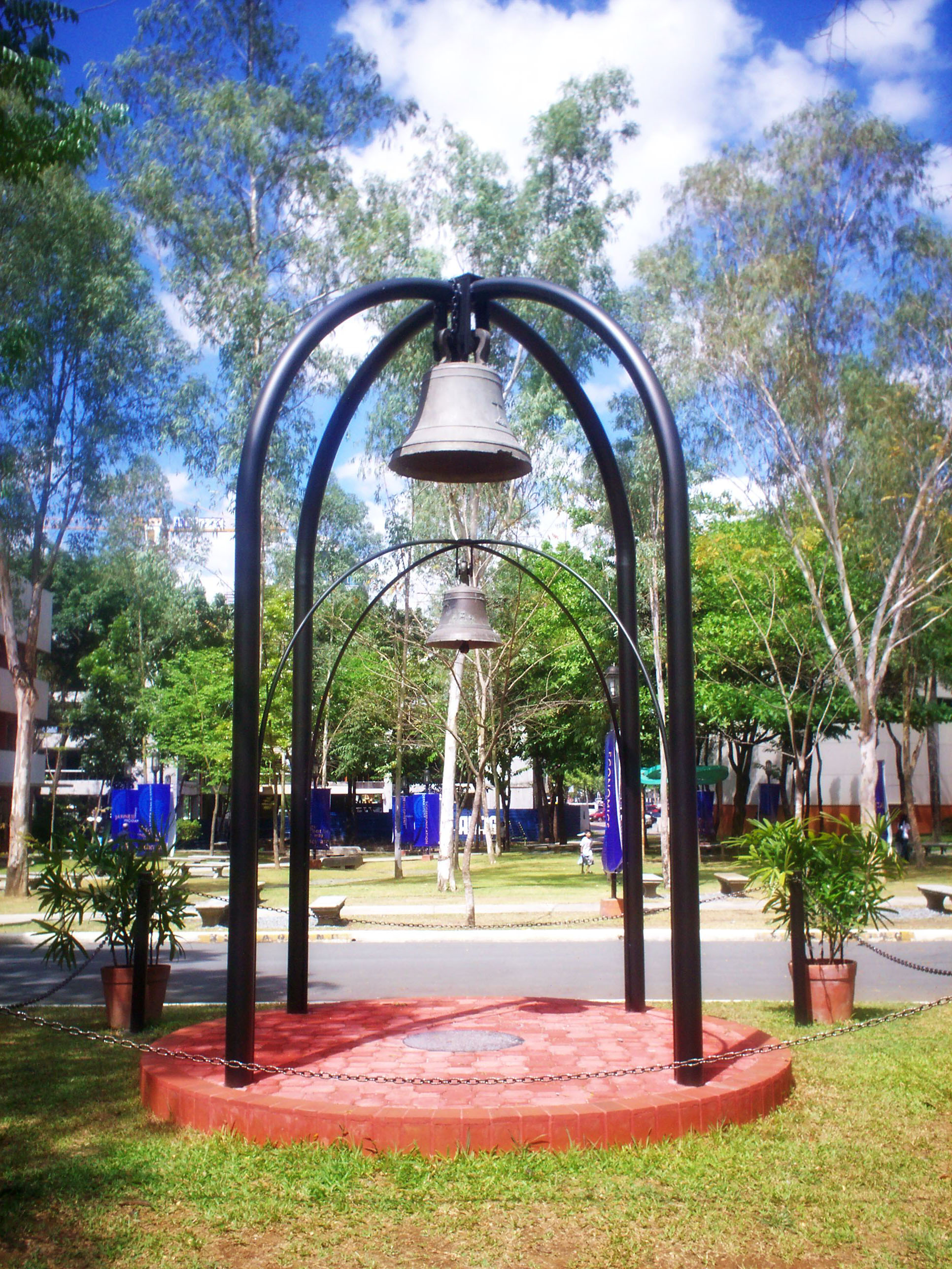 The Heritage Bells of the Ateneo de Manila University. The larger bell was cast in 1832, the smaller one followed fifty years later. The two bells were used to signal the start and end of classes in the then Ateneo along Padre Faura in Manila.